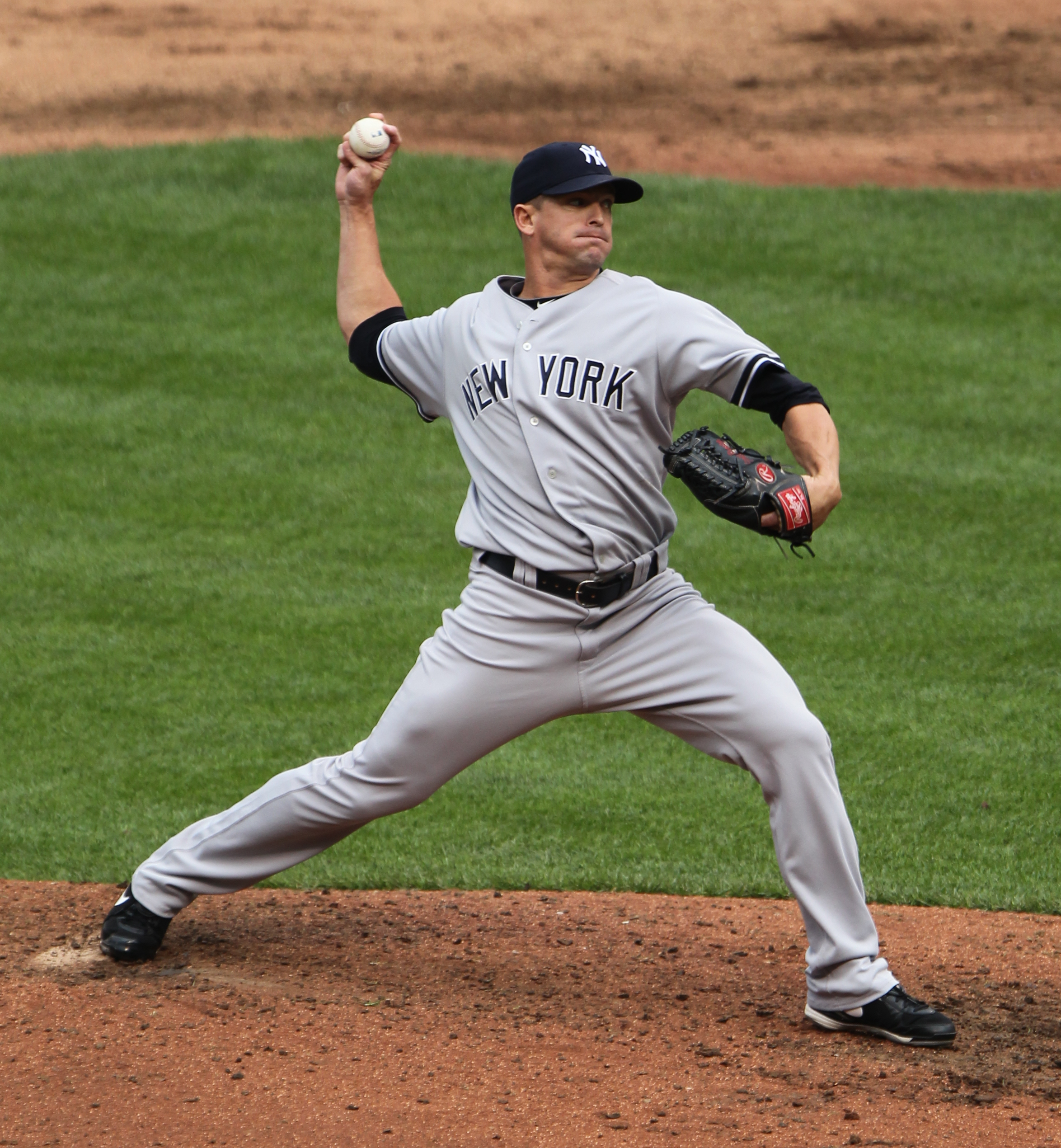 Baseball pitcher Scott Proctor. The New York Yankees visited Camden Yards to play against the Baltimore Orioles on September 8, 2011.